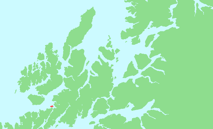 Locator map of Brottøya, Nordland, Norway